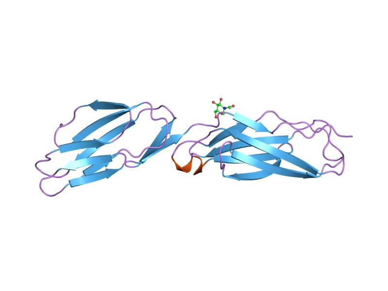 Cartoon representation of the molecular structure of protein registered with 1iam code.